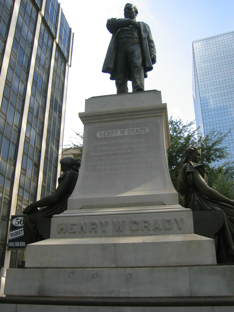 Statue of Henry W. Grady in on Marietta Street in downtown Atlanta, Georgia. The statue was erected in 1891.